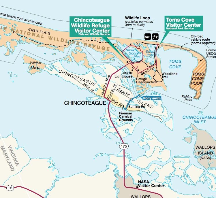 Excerpt from map of the Chincoteague-Assateague island area